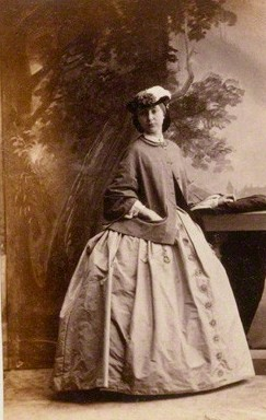 Lady Amberley